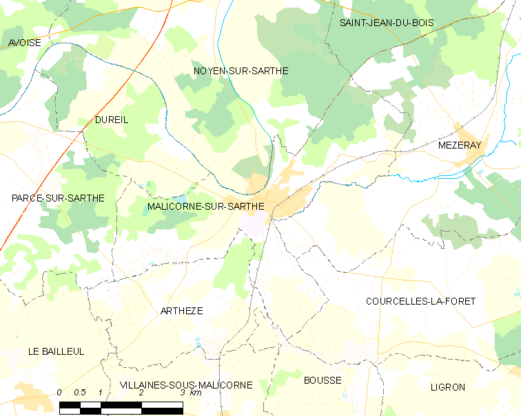 Map of French municipality